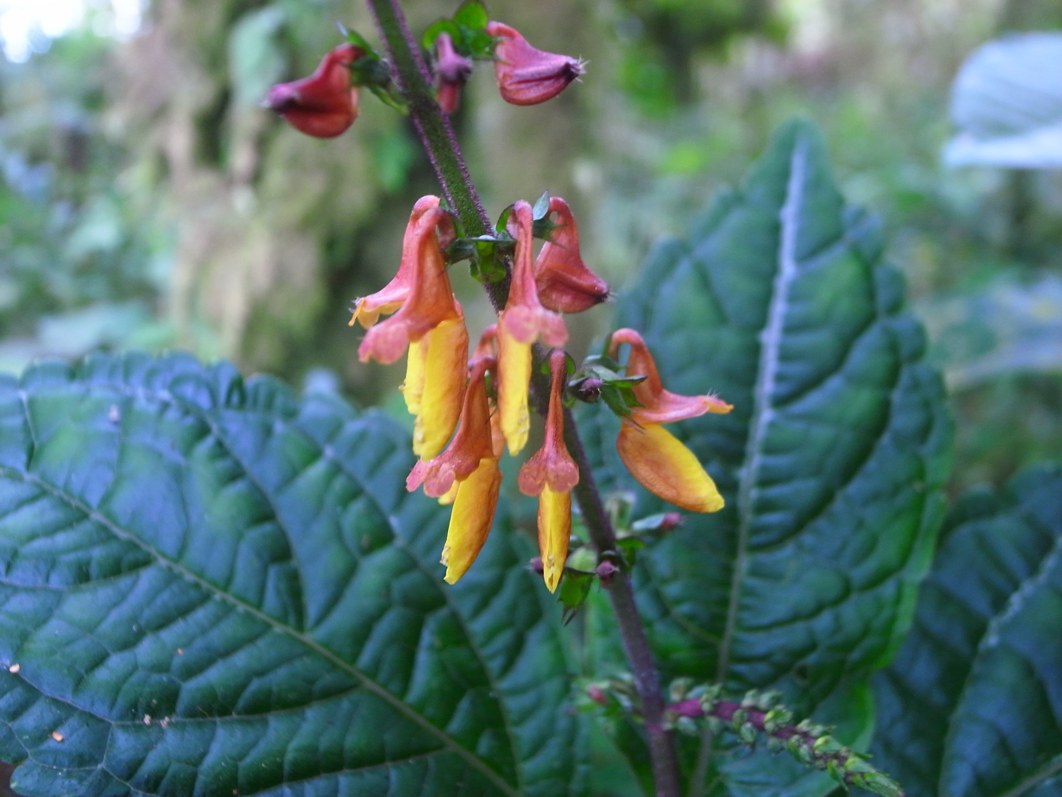 Plectranthus decurrens in Bioko, Equatorial Guinea